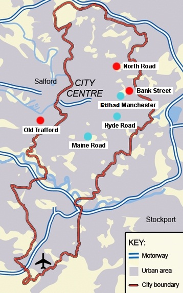 Map of Manchester, England featuring the location of of six football stadiums (3 Manchester City, 3 Manchester United) used by the clubs since their foundation.